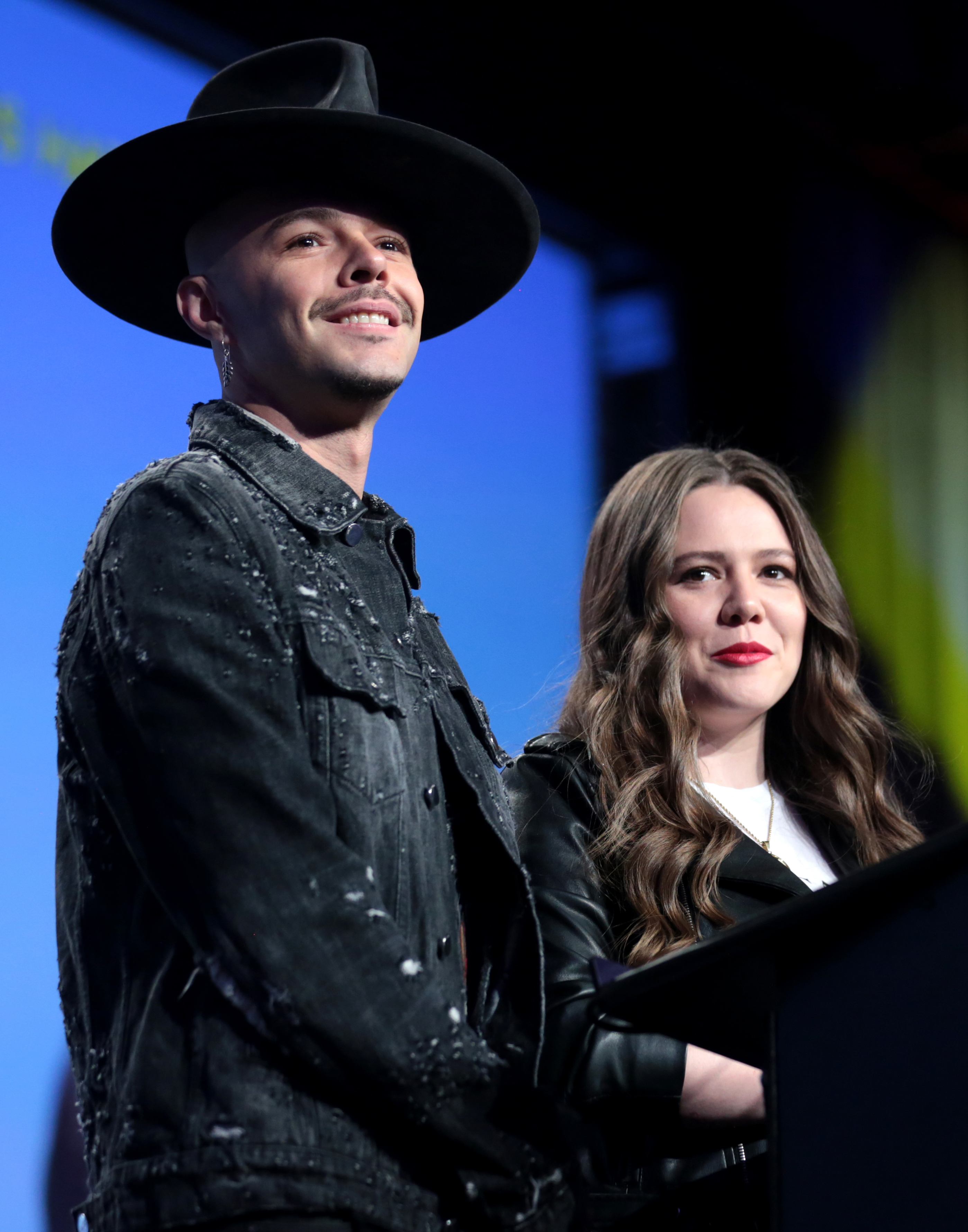 Jesse & Joy speaking at an event in Phoenix, Arizona.